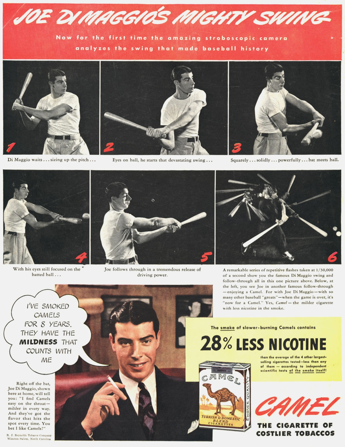 Date: 1941 Brand: Camel Manufacturer: R. J. Reynolds Tobacco Company Quote: "I've smoked Camels for 8 years. They have the mildness that counts with me."